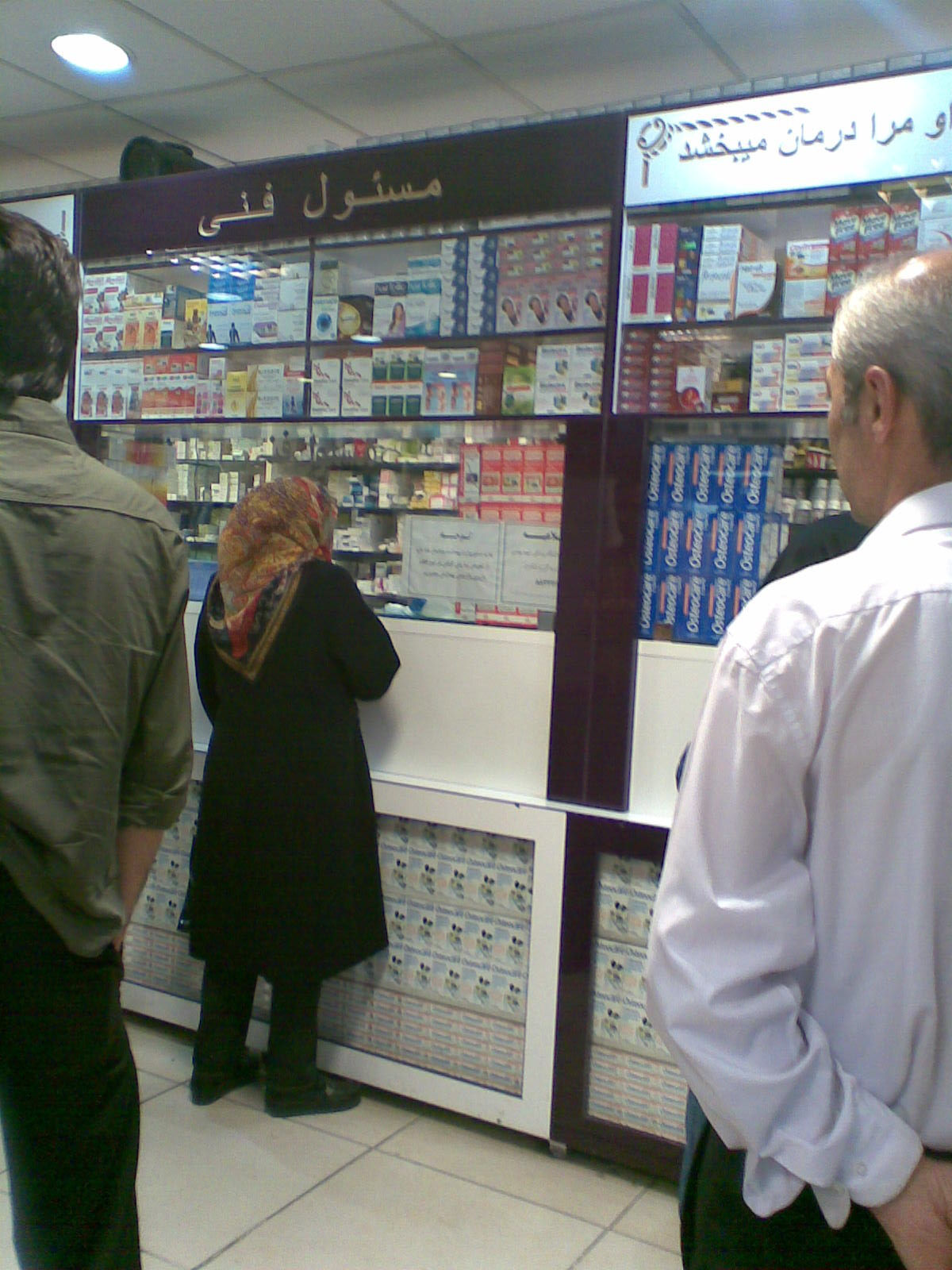 This is the "Technical Section" in a pharmacy in Tehran.